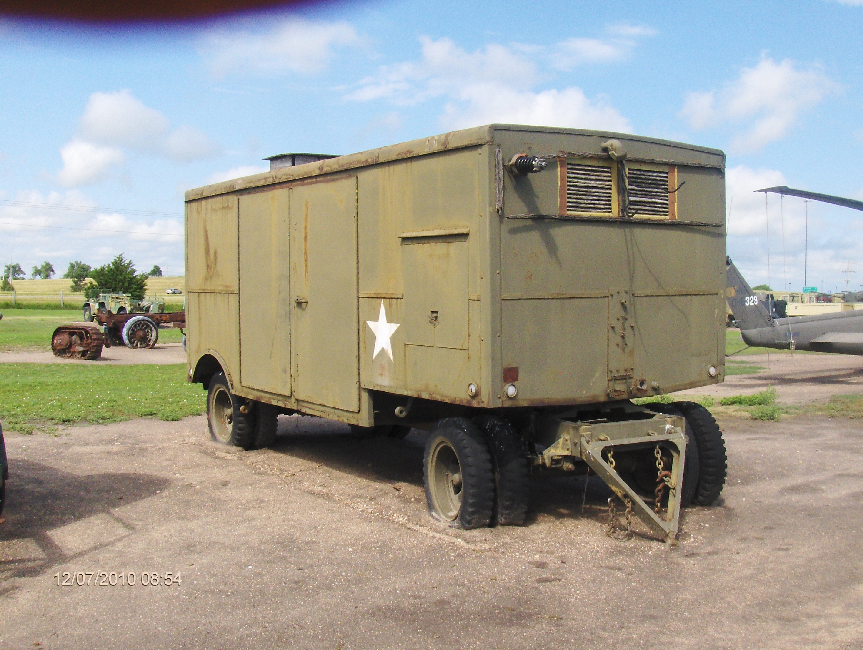 K34 trailer survivor